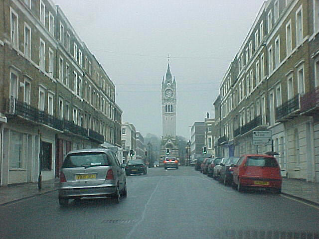 A wet afternoon in February Have had happier times in this Thameside town and used to do a 70 mile round trip on the bicycle when I was younger to watch the shipping movements. A work trip provided this shot some 40 years later!